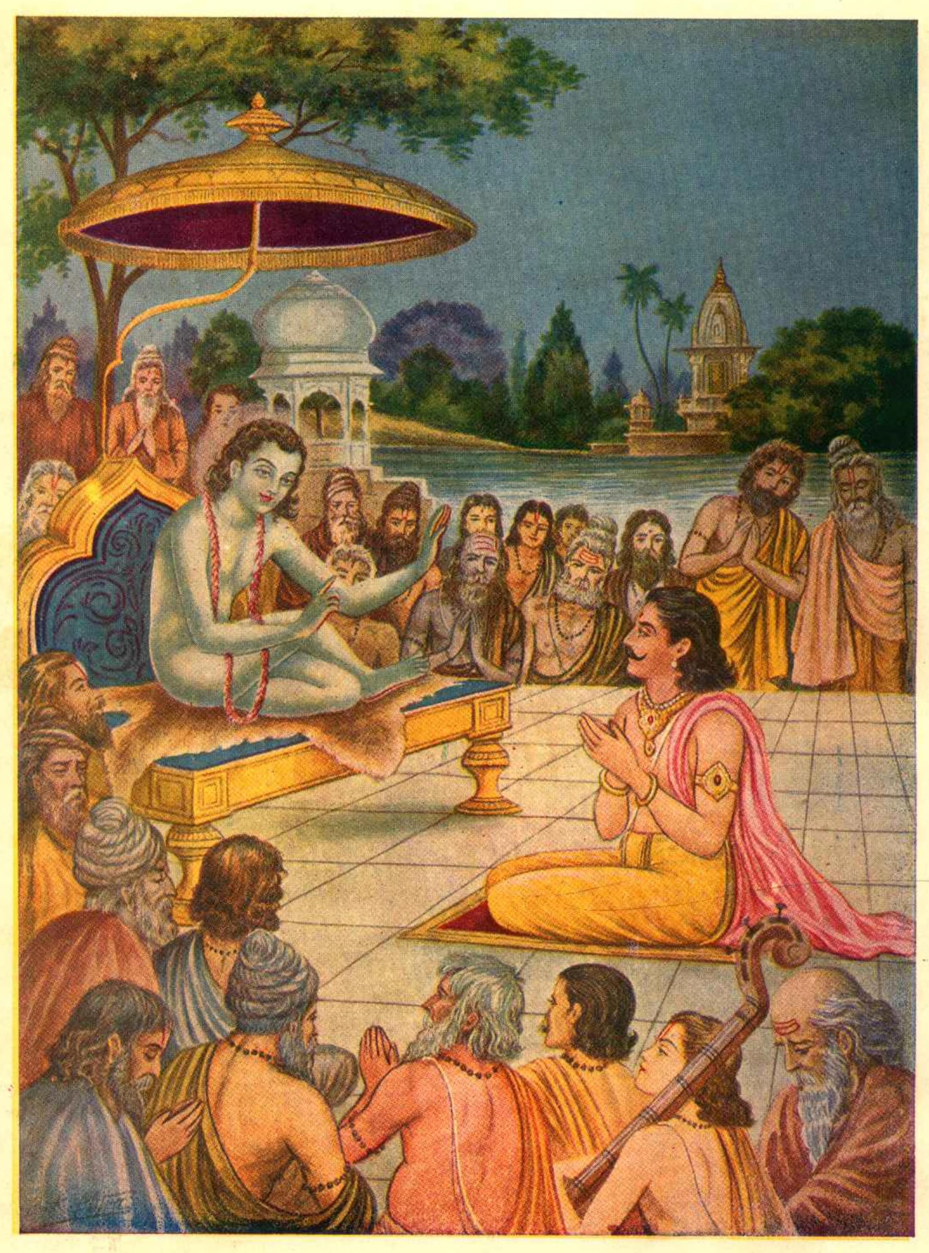 Shrimad Bhagavata Mahapurana Gita Press Gorakhpur by MahaMuni Usage Topics Sanskrit, "महामुनि का संग्रह", "Pratiek-Lucknow" Collection opensource Language Sanskrit Indological Books , 'Shrimad Bhagavata Mahapurana - Gita Press Gorakhpur.pdf' Identifier ShrimadBhagavataMahapuranaGitaPressGorakhpur Identifier-ark ark:/13960/t1bk7m619 Ocr language not currently OCRable Ppi 600 Scanner Internet Archive HTML5 Uploader 1.6.3